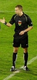 Tamás Bognár Hungarian football referee